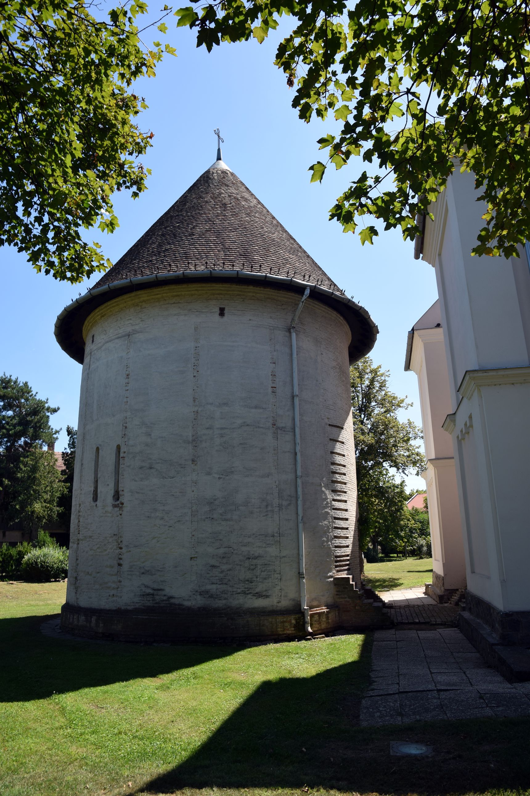 Kiszombor round church